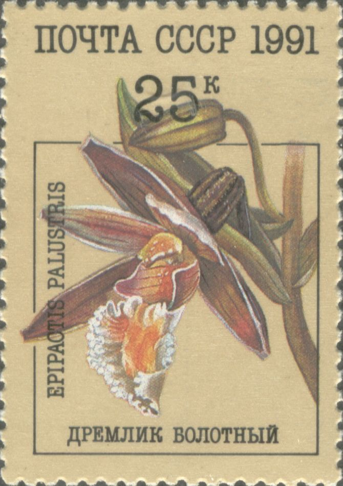 Stamp Stamps of the Soviet Union, 1991of USSR: Epipactis palustris. Issue: Orchids